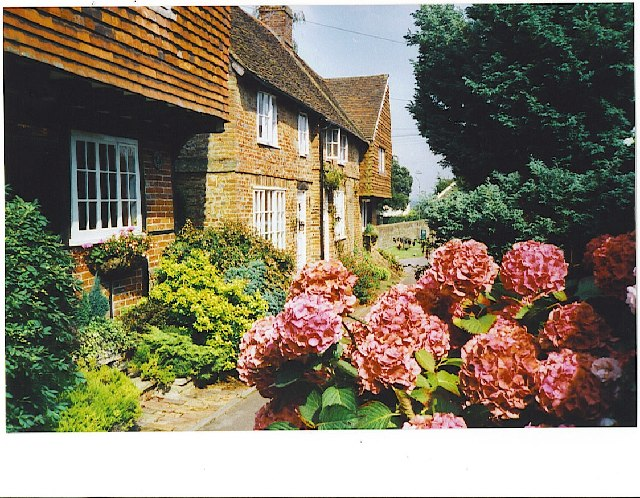 Church Street, Bletchingley. Typical old tile-hung Surrey cottages.